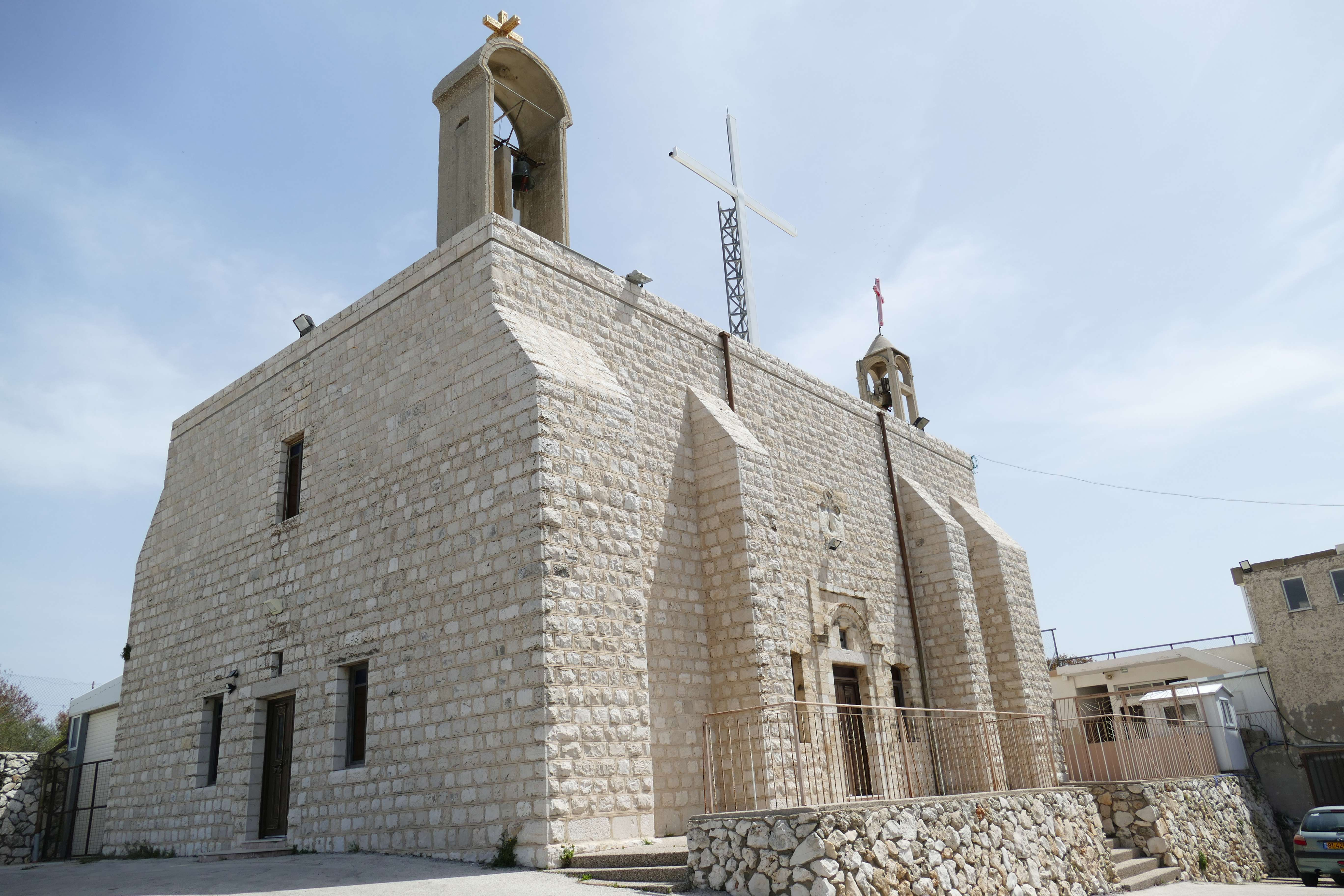 Jish (Gush Halav), Israel.